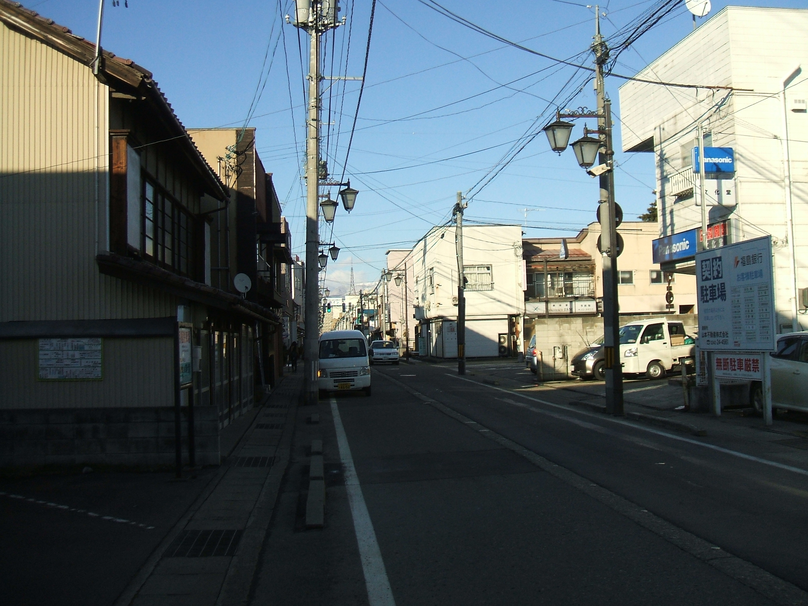 This is a landscape of "Omachi-Dori" street. It was taken at Aizuwakamatsu, Fukushima.